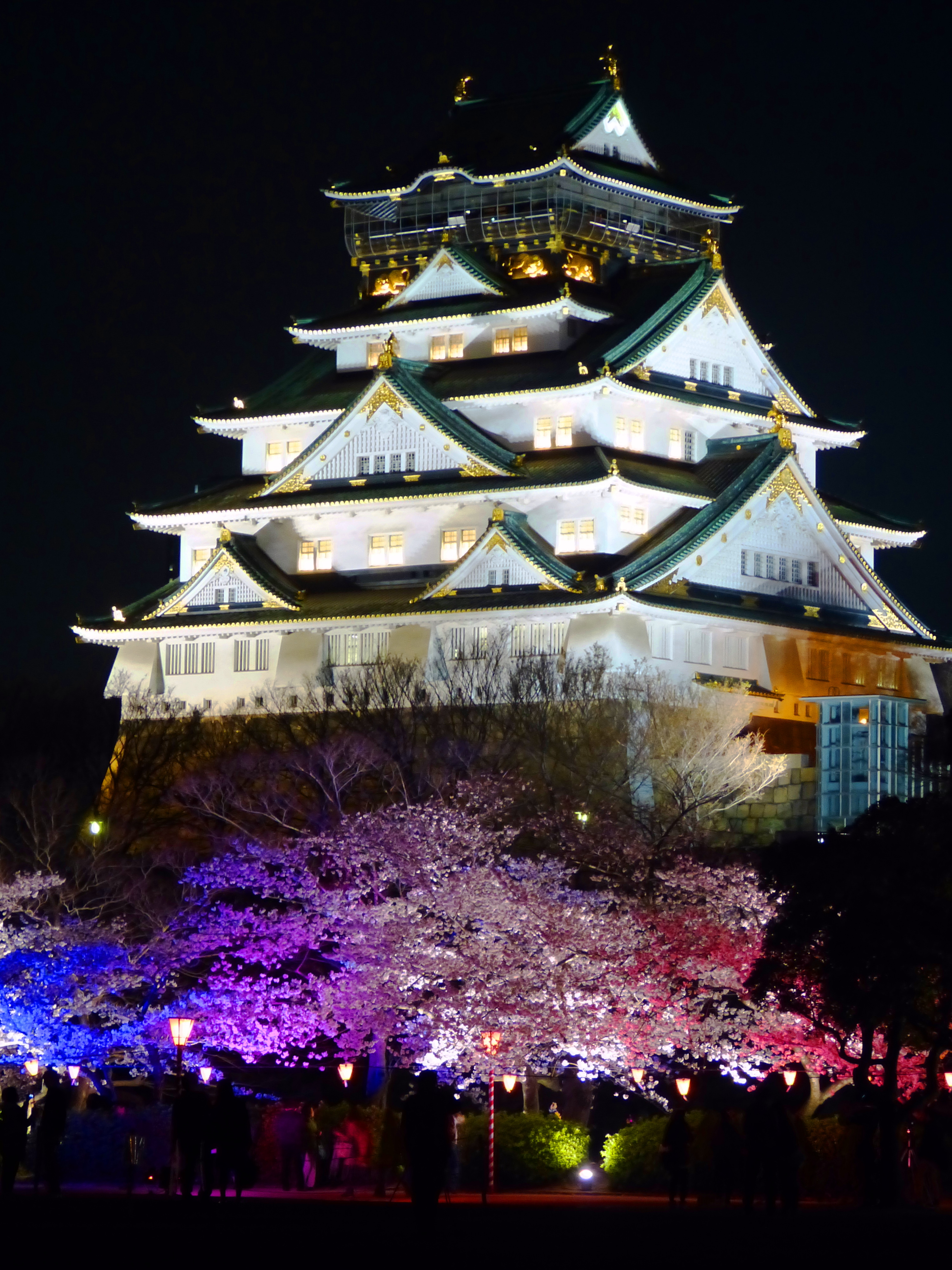 The lit-up cherry trees and Osaka castle keep tower(Japan's Top 100 famous place of cherry trees) ,Osaka prefecture,Japan